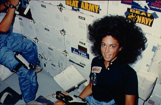 View of Mission Specialist Judith Resnik sitting on the floor of the middeck. Beside her on a notebook is a note which says "Hi Dad". Above her head on the middeck lockers are various stickers such as "Beat Army", "Beat Navy" and "Air Force: a great way of life". Beside her is a [sticker] which reads "I love Tom Selleck".